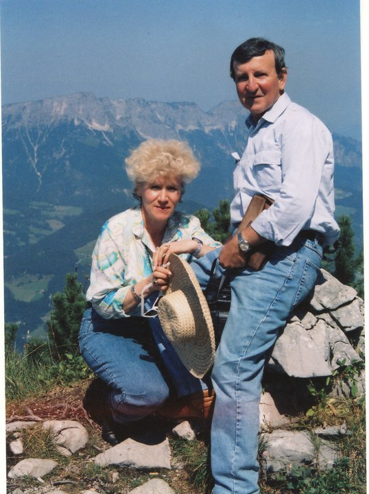 Ara Berkian with his wife Lisa Berkian-Abrahamian